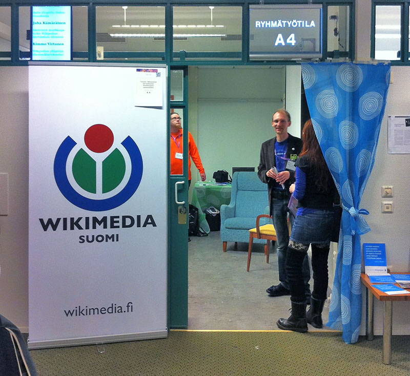 The ITK conference is an event for showcasing and applying interactive technologies in education. Wikimedia Finland had an exhibitor venue there in 2014.